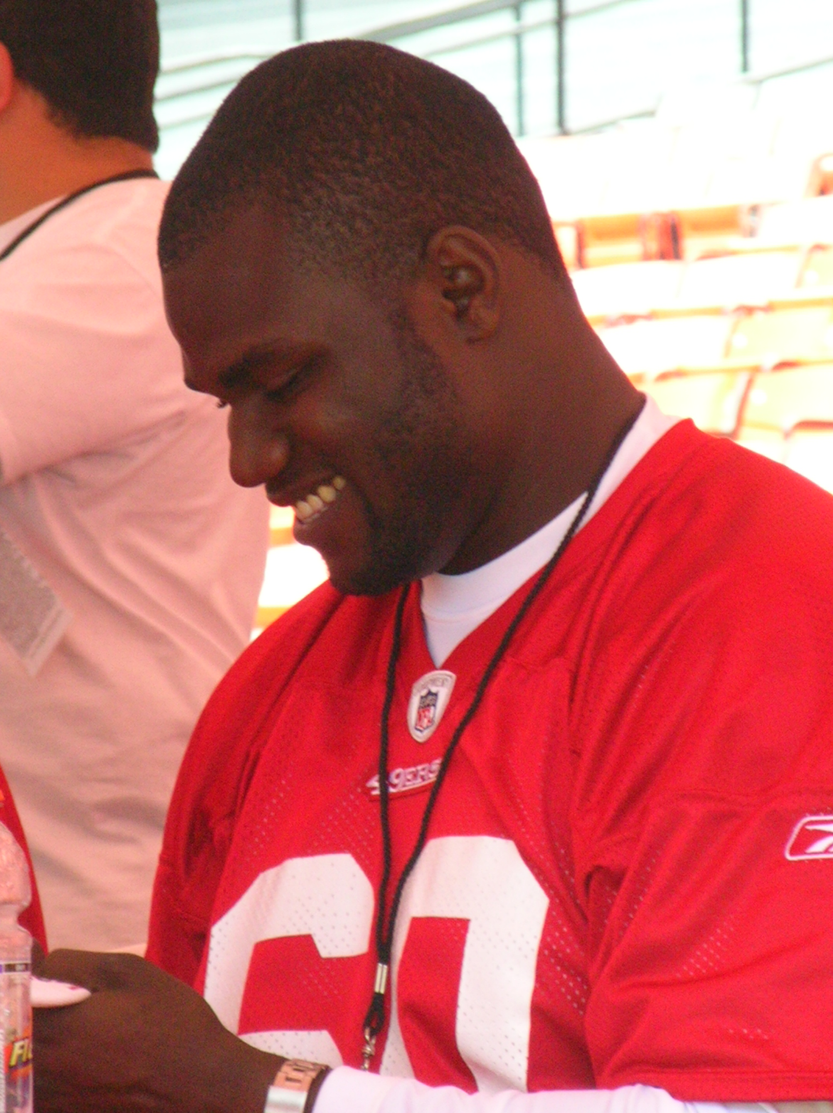 San Francisco 49ers defensive tackle Khalif Mitchell at the San Francisco 49ers Family Day 2009 at Candlestick Park.